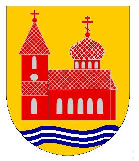 Unofficial coat of arms of Gammalsvenskby